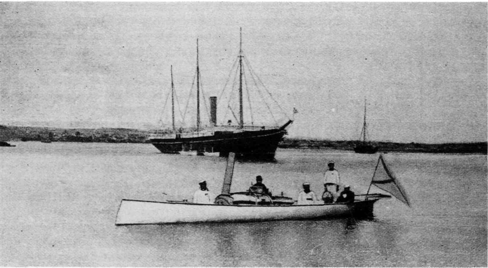 Russian torpedo launch Chesma, which accomplished the first in the world combat torpedo attack